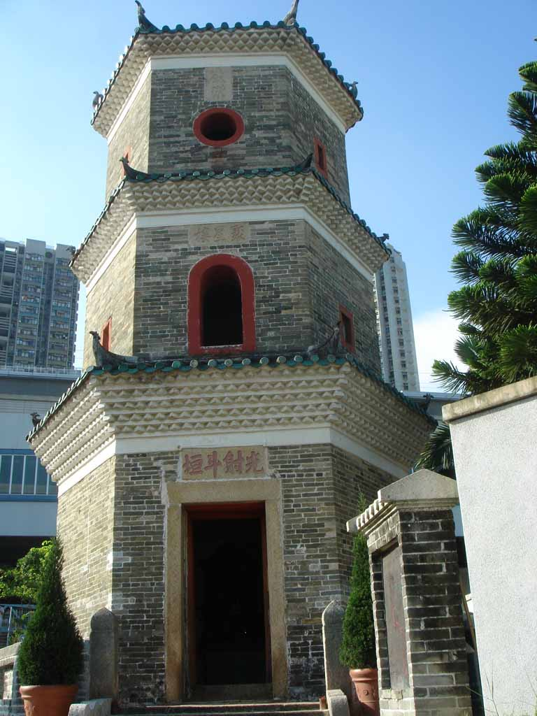 Taken at 29 September 2006 and uploaded by Hkchan123. 中文（香港）: 聚星樓。